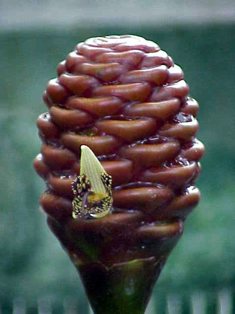 Species: Zingiber macradenium Family: Zingiberaceae Image No. 2